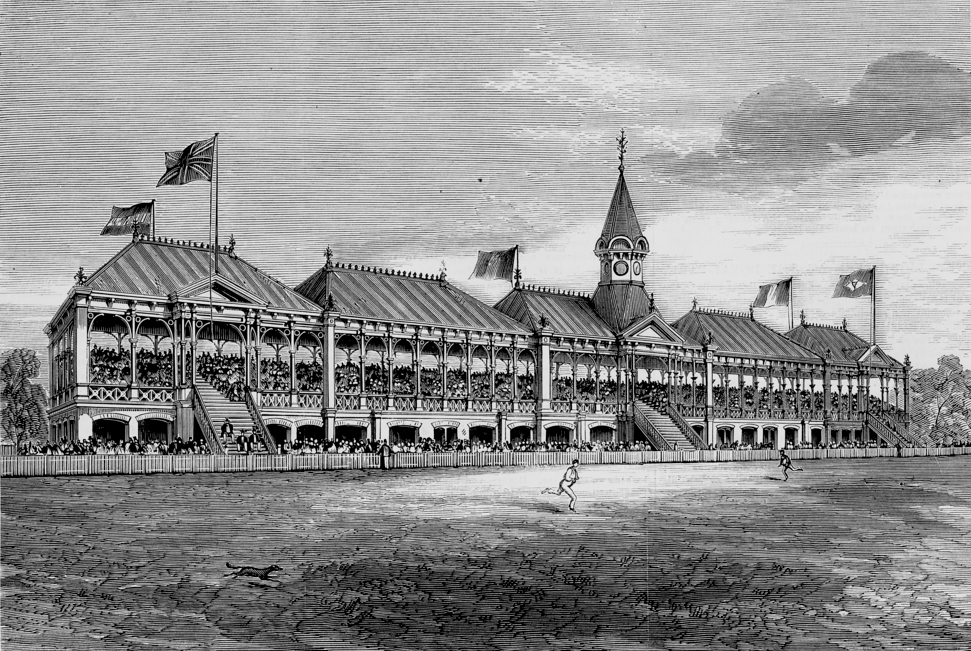 Wood engraving of a grandstand at the Melbourne Cricket Ground.